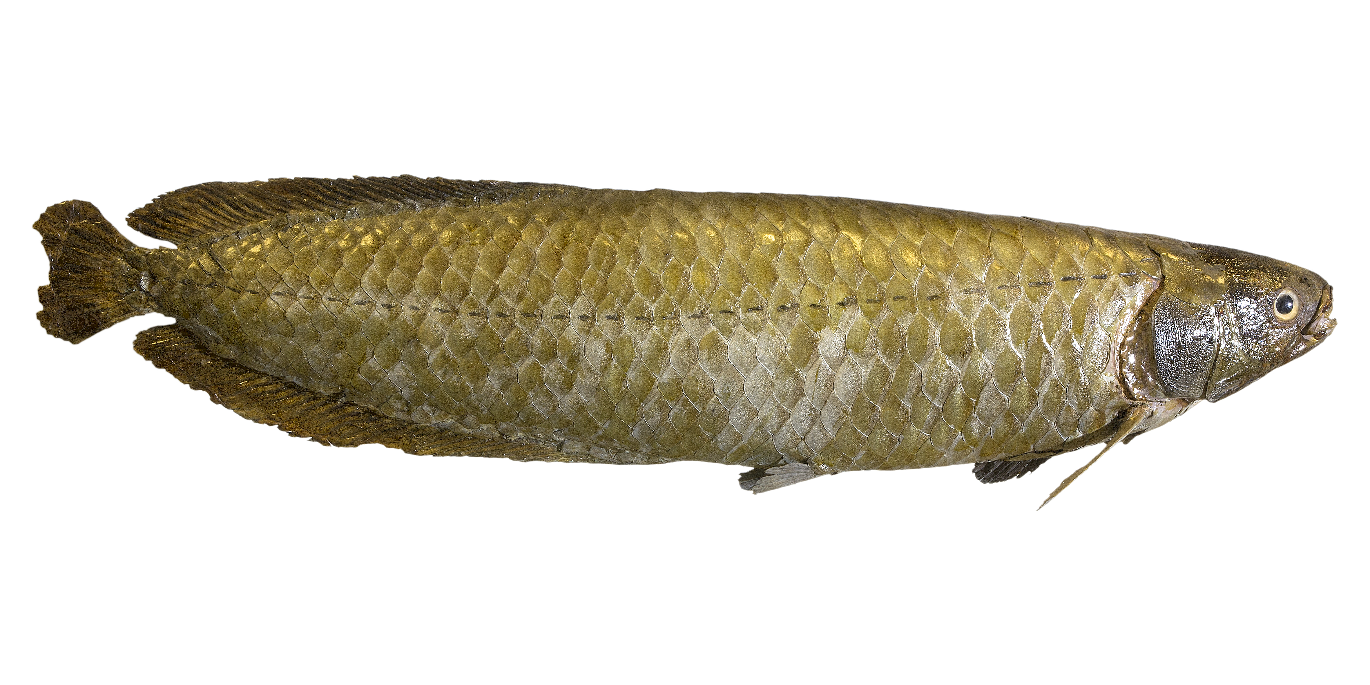 taxidermied specimen, African arowana, size : 75 x 15 x 21 cm